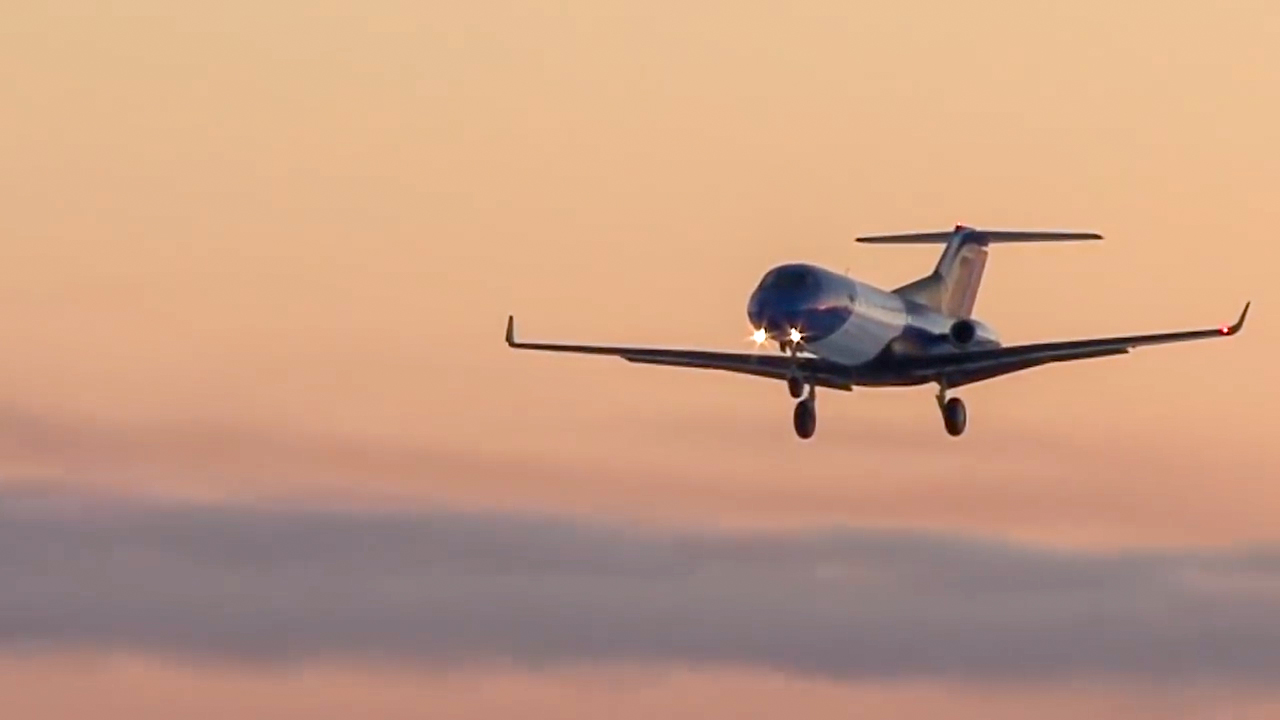 SIBNIA STR-40DT — the first flight with a carbon-composite wing. 87216 (s/n 9510440) Russia, Novosibirsk, Yeltsovka Airport December, 4, 2018.